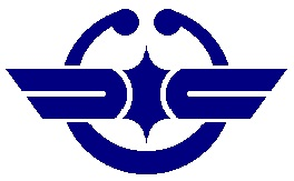 Mikkaido Ibaraki chapter